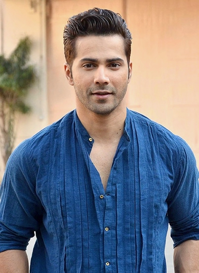 Varun Dhawan promoting Badrinath Ki Dulhania